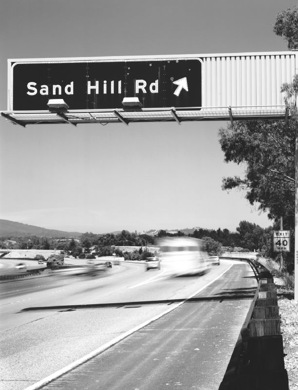 Sand Hill Road sign from 280 north. "KTVC was the station. Amelia Crenshaw was the reporter. Her producer, camerman and the station van were arrayed along the narrow shoulder of Highway 280 while Amelia, microphone in hand, did a stand-up with the exit sign for Sand Hill Road looming behind her."